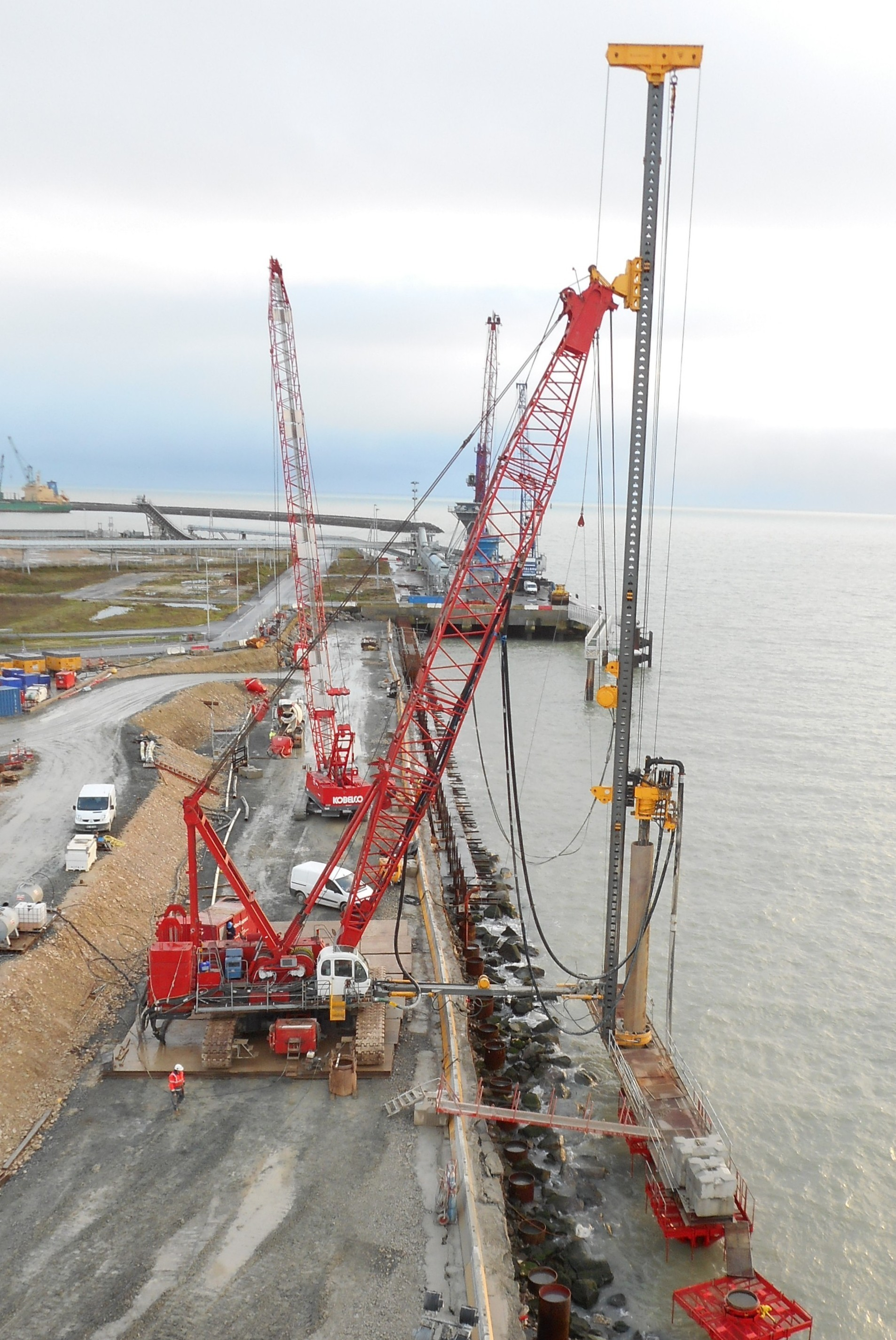 Reverse circulation system utilized on a Vertical Travel Lead drilling up to 53" piles in the port of La Rochelle, France.